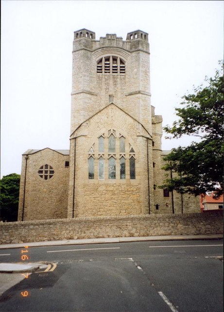 St Andrew's parish church, Roker, Sunderland, Tyne and Wear, seen from the east